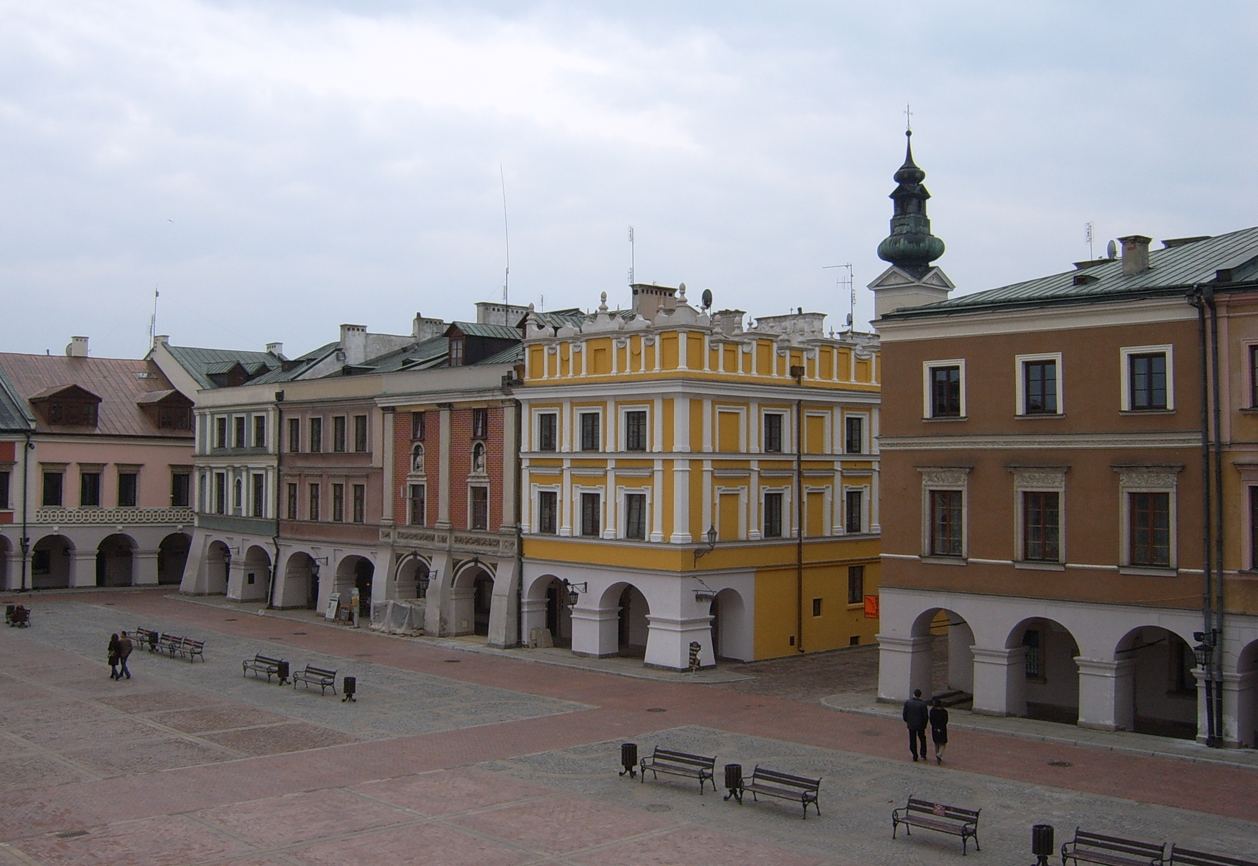 Zamość, tenements in Great Market - western side